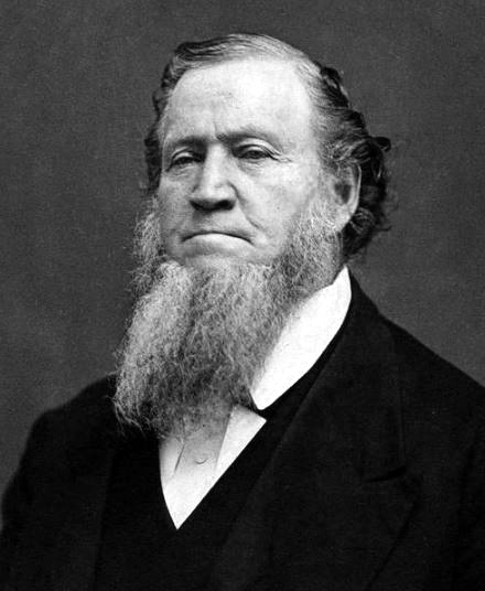 Brigham Young